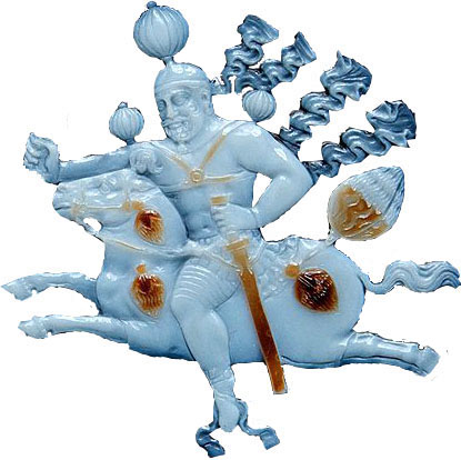 Part of a sardonyx cameo of Shapur I with the background removed. In the original, Sharpur is grabbing Emperor Valerian by the wrist while both are mounted on horses. Circa 260 AD.